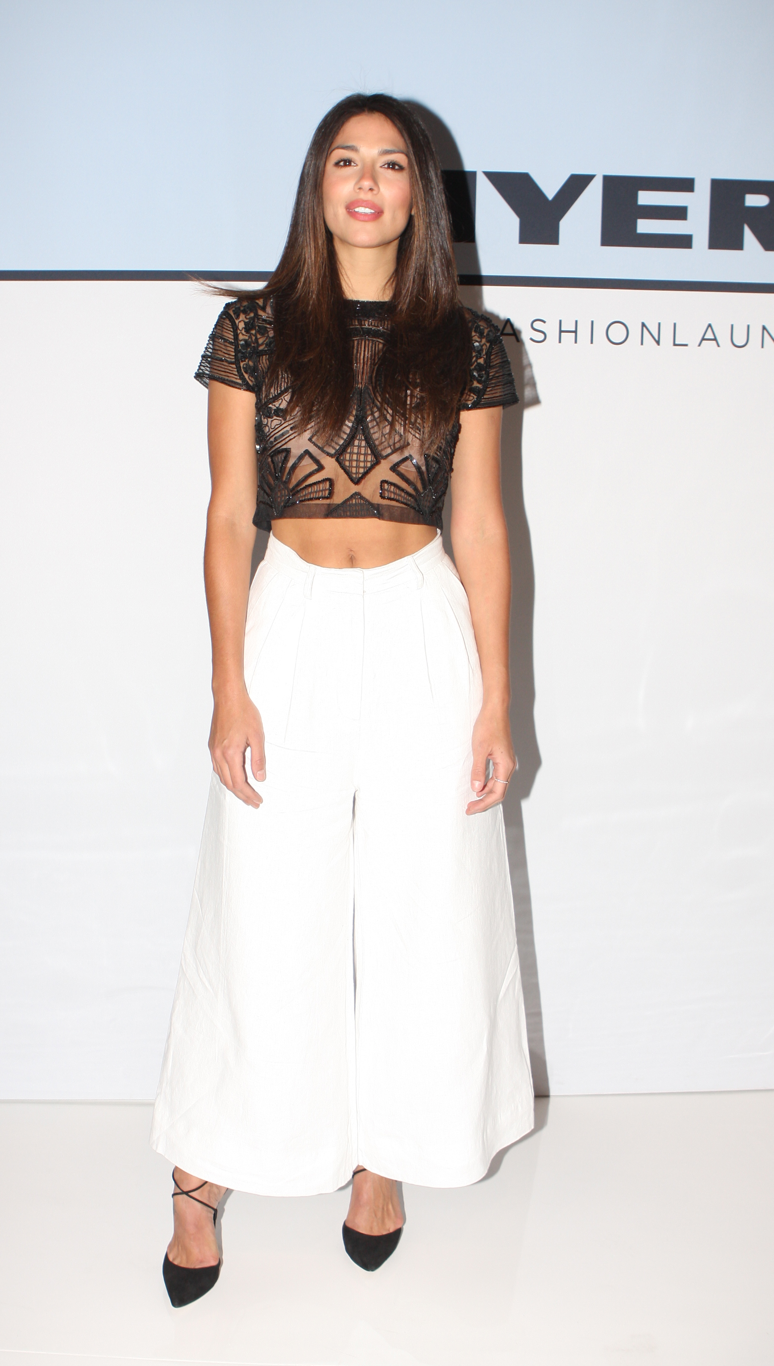 Pia Miller at Myer Fashion Spring Launch 2015 Red Carpet